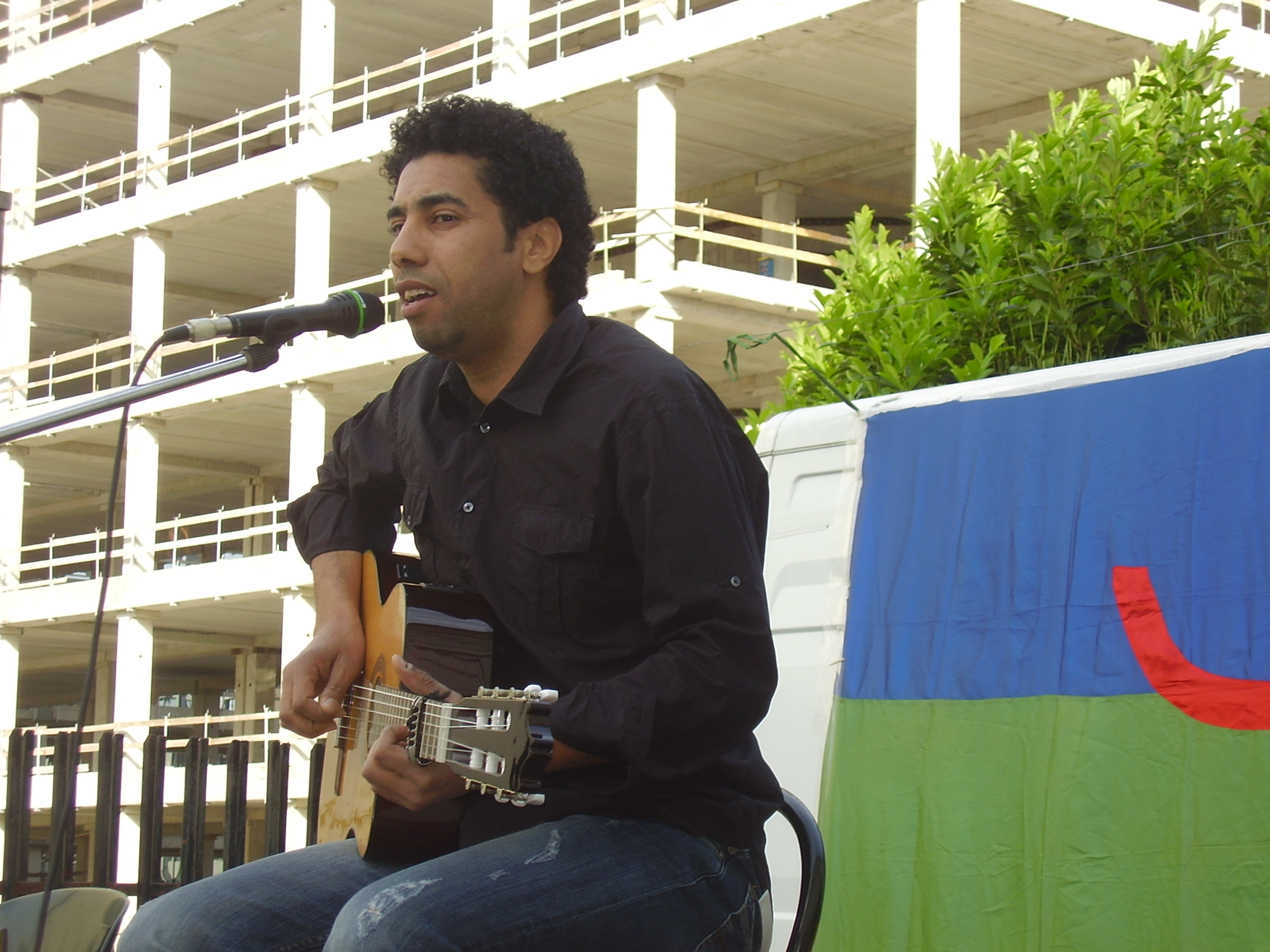 The Berber singer Yuba, a.k.a. Moussa Habboune, in a concert in Milan (Italy), May 16 2010